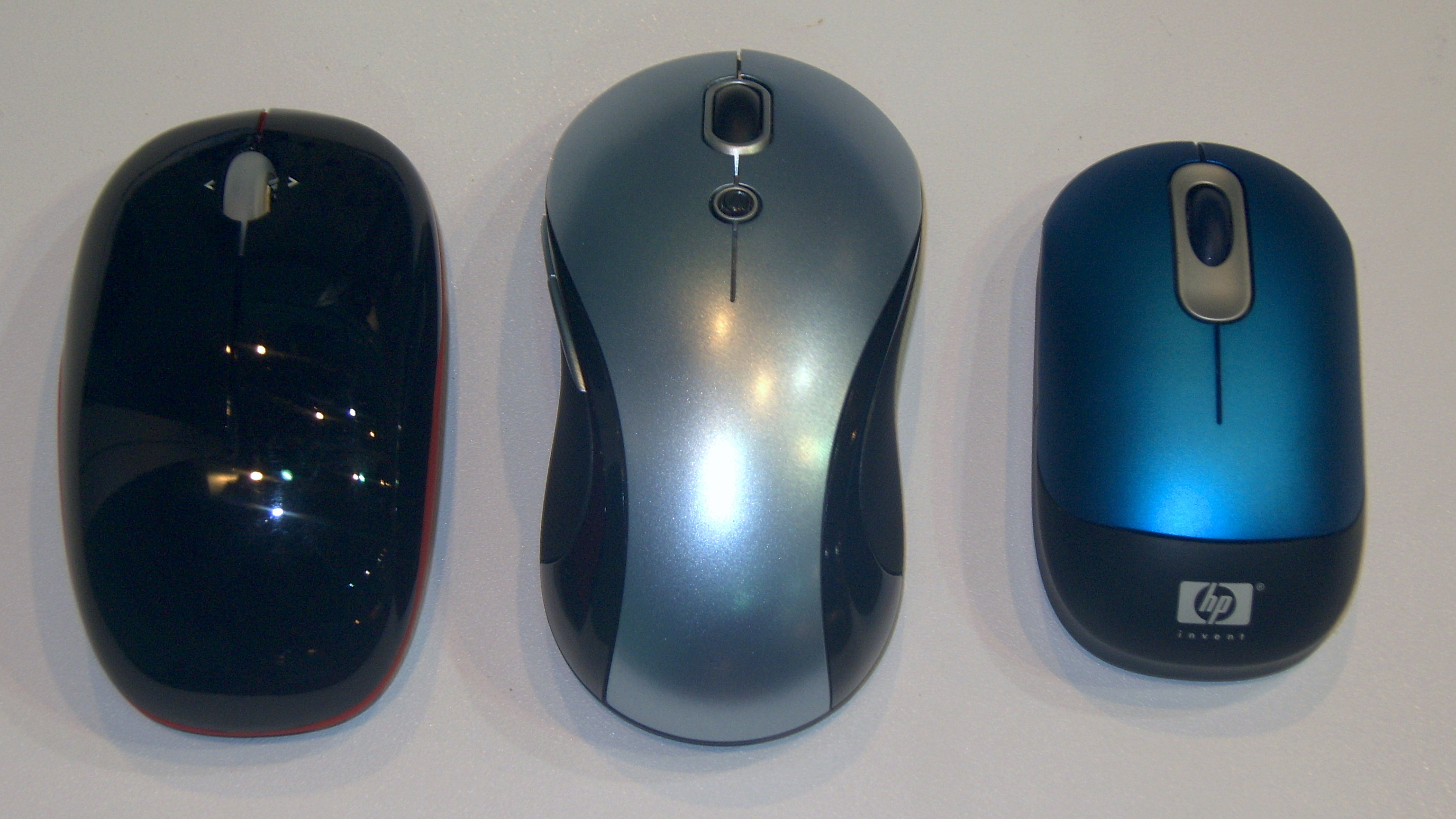 2008 Computex - Taiwan Design Innovation Pavilion: VALD Design - Conceptual Mice.